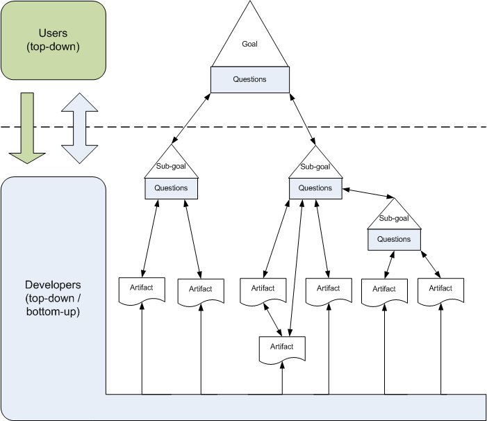 Goal-driven software development schema